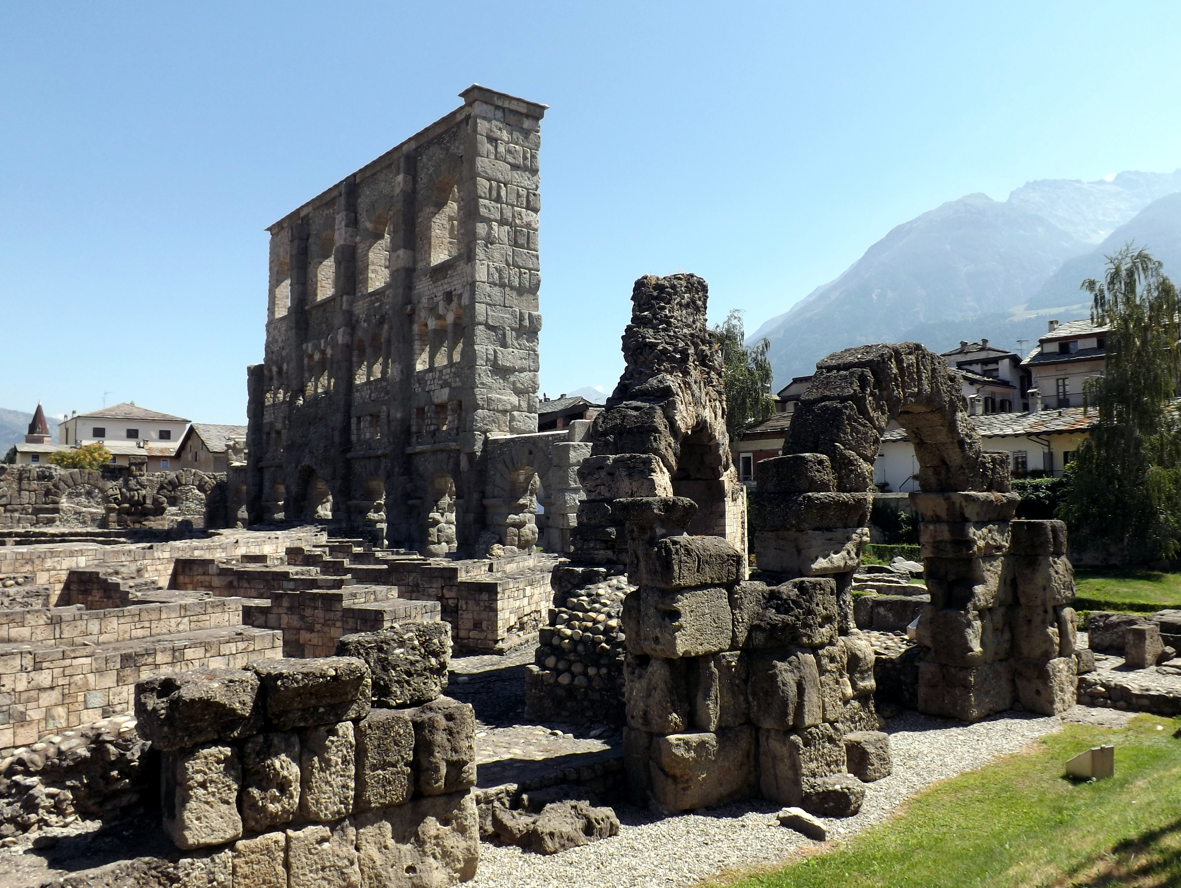 Aosta, Italy - Ancient Roman theatre This is a photo of a monument which is part of cultural heritage of Italy.